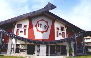 St Joseph's Cathedral before the extension